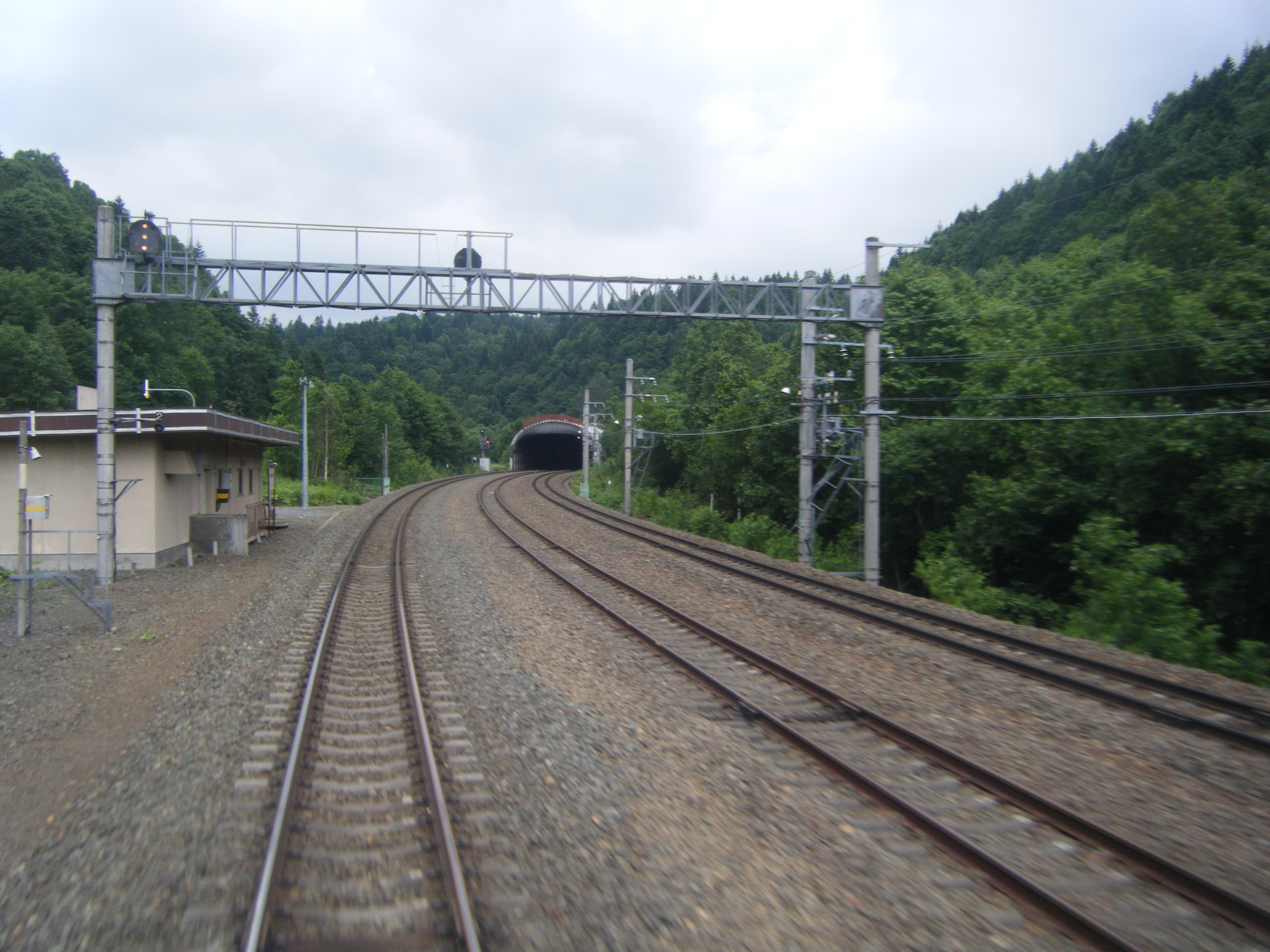 Kushinai Signal Base viewed from Super Ozora train